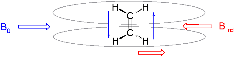 Induced magnetic field in alkenes when in an external magntic field